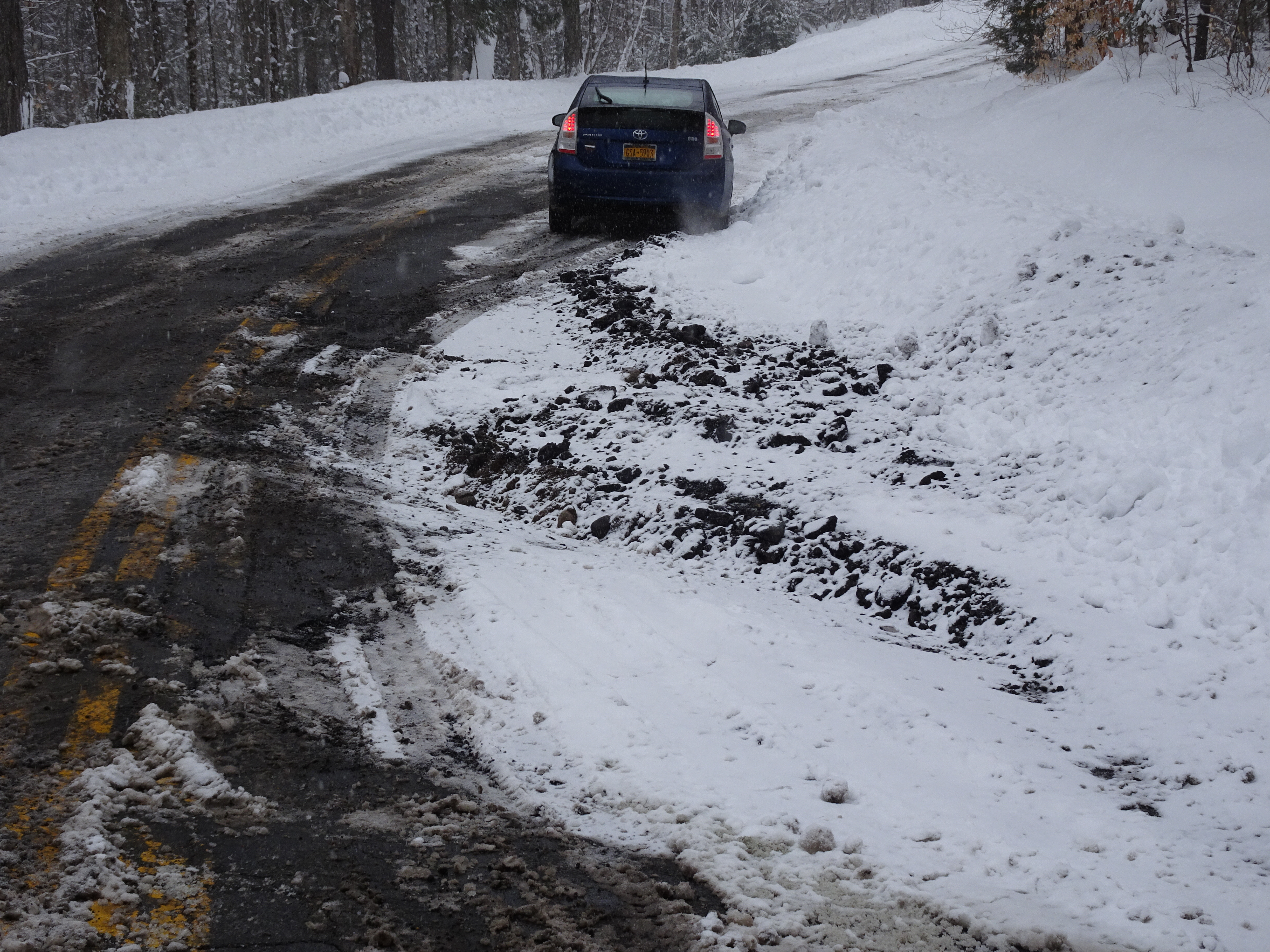 Snowplow damage on a rough dead end road, New York State Route 421 in the Adirondacks.